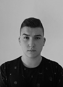 front picture of Adrien Rux, spanish musician.